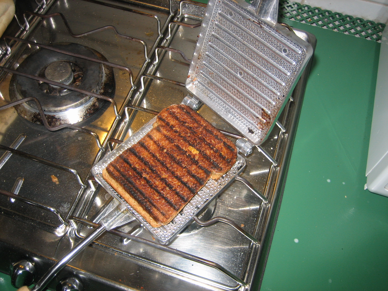 Tosti-ijzer / toaster to prepare a toasted ham and cheese sandwich